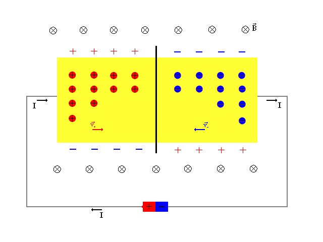 compare as the Hall Effect acts on positive and negative charge.